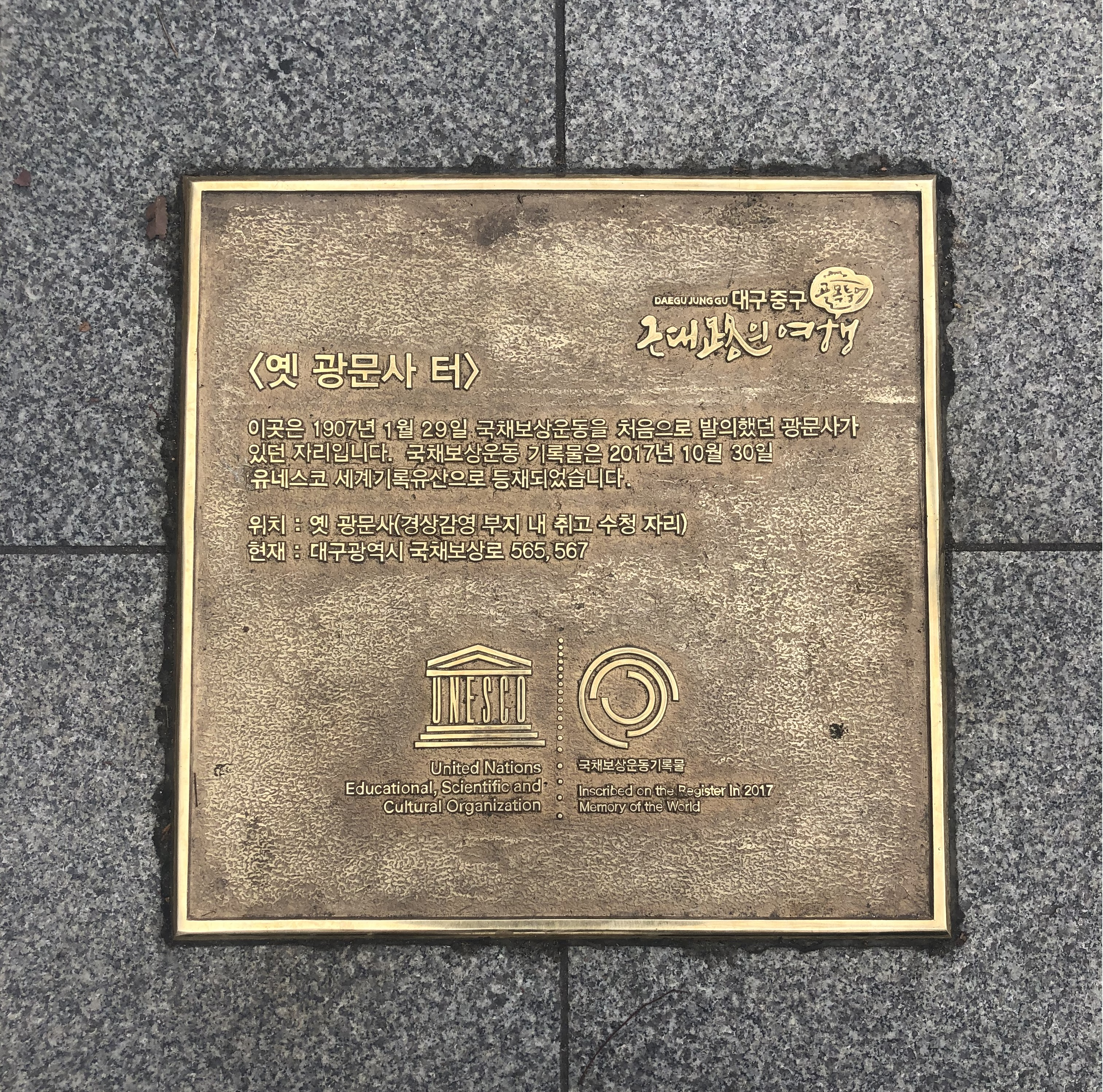 The Site board of Daegu Guangmunsa, Cradle of National Debt Redemption Movement in Daegu, in 1907